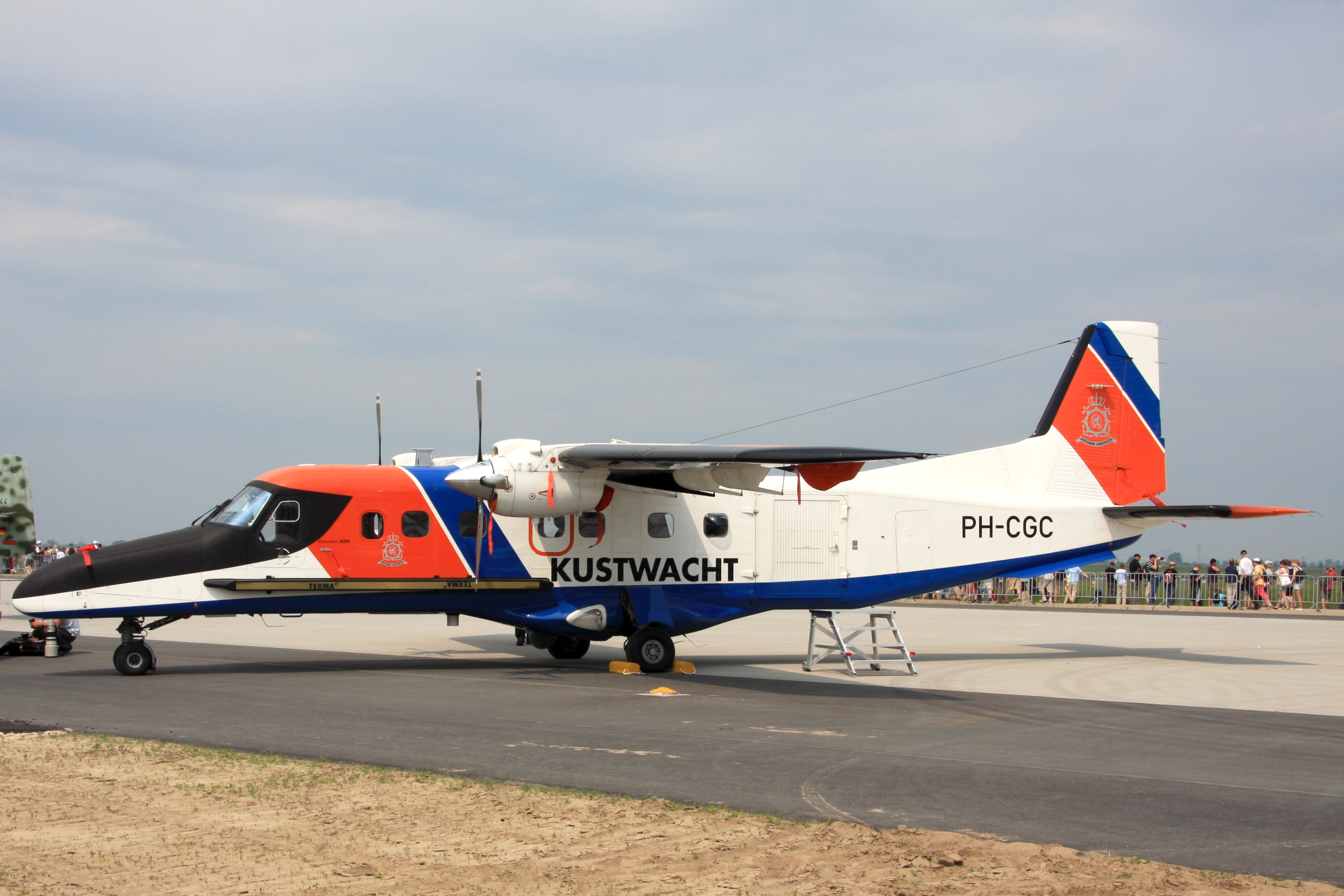 A Do 228 of the Dutch Coast Guard at Berlin Schönefeld Airport (picture taken during the International Air and Space Exhbition).